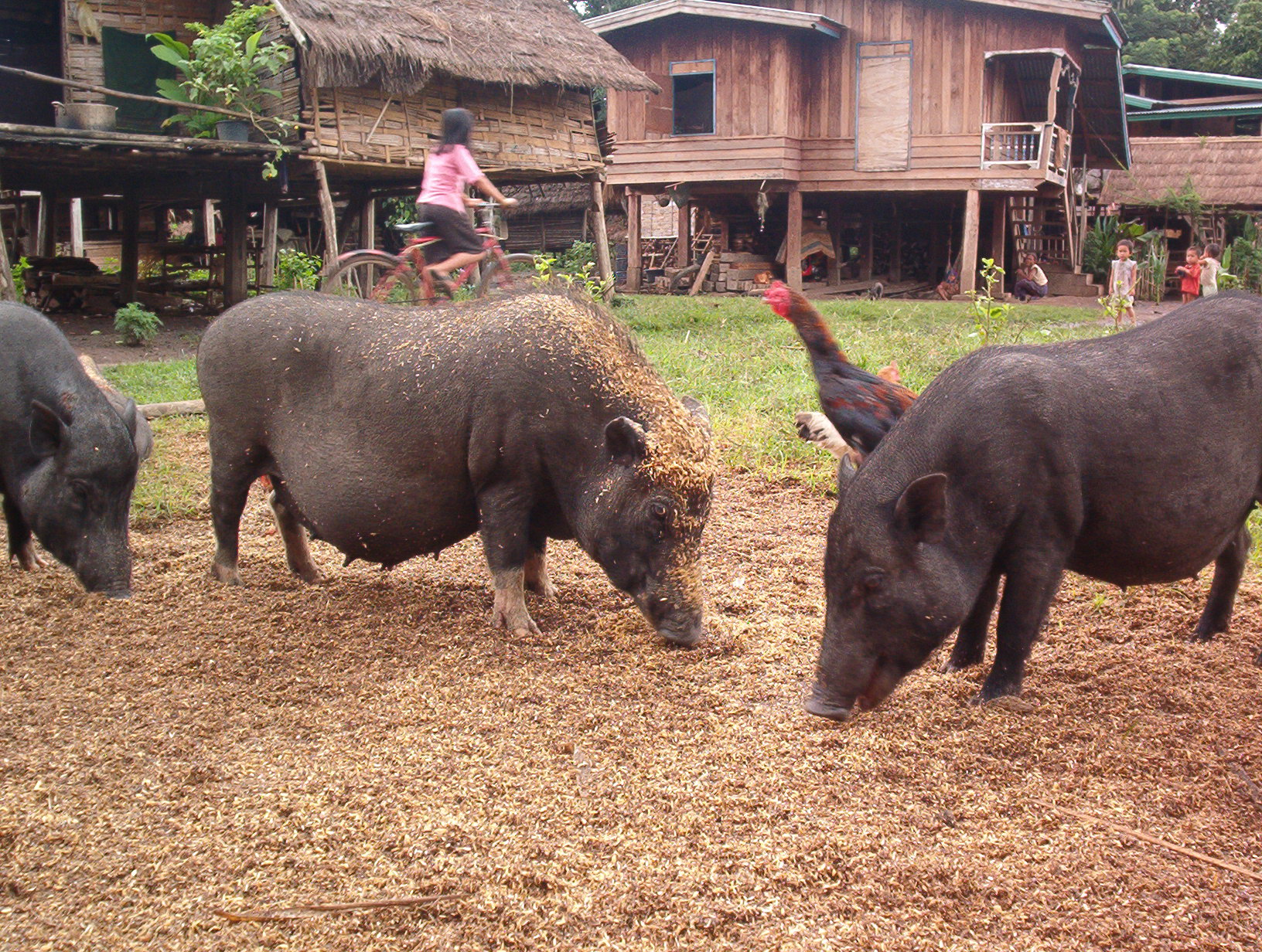 Pigs feeding in a small Hmong village in southern Laos